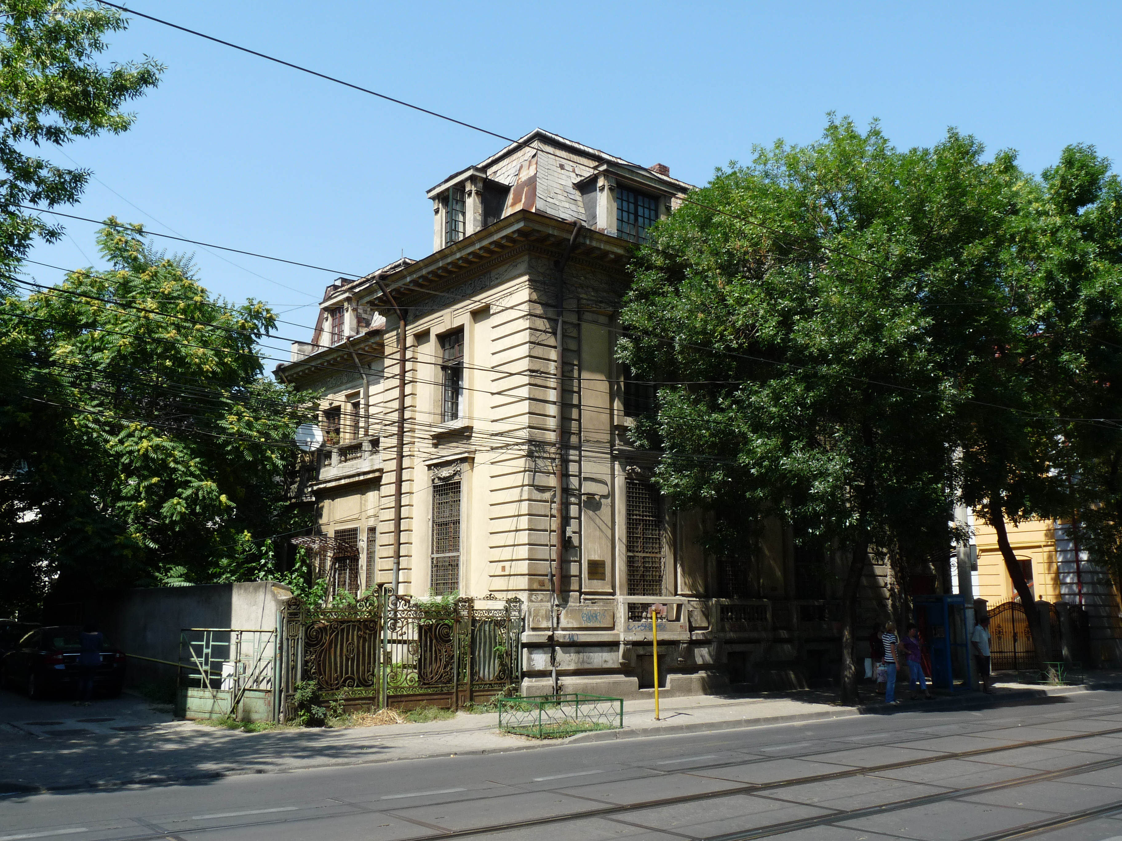 Historic building in Bucharest, Romania, on Regina Maria boulevard 40Română: Clădire istorică din Bucureşti, România, pe bulevardul Regina Maria 40